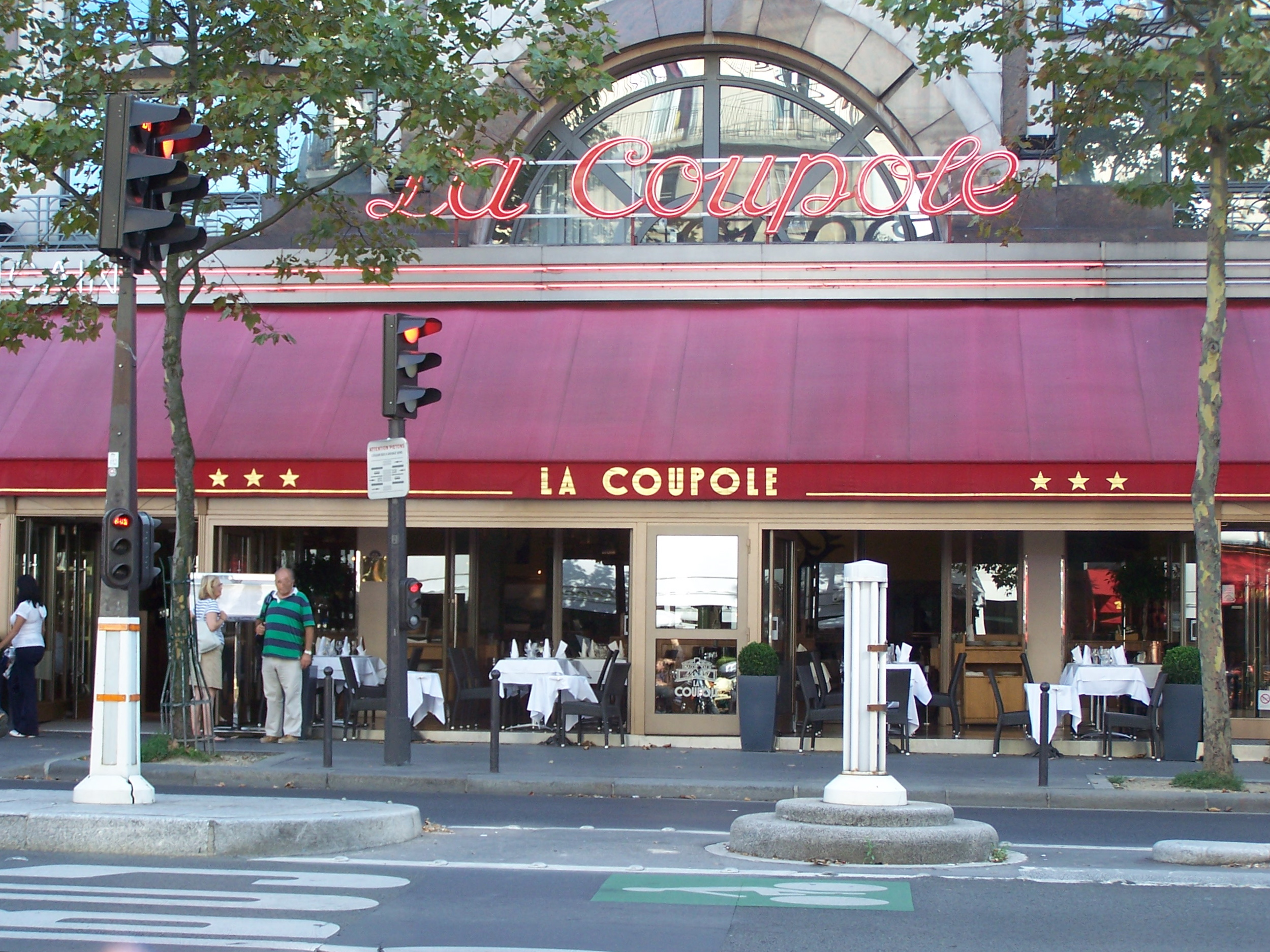 View of the brasserie/restaurant La Coupole at boulevard du Montparnasse in Paris